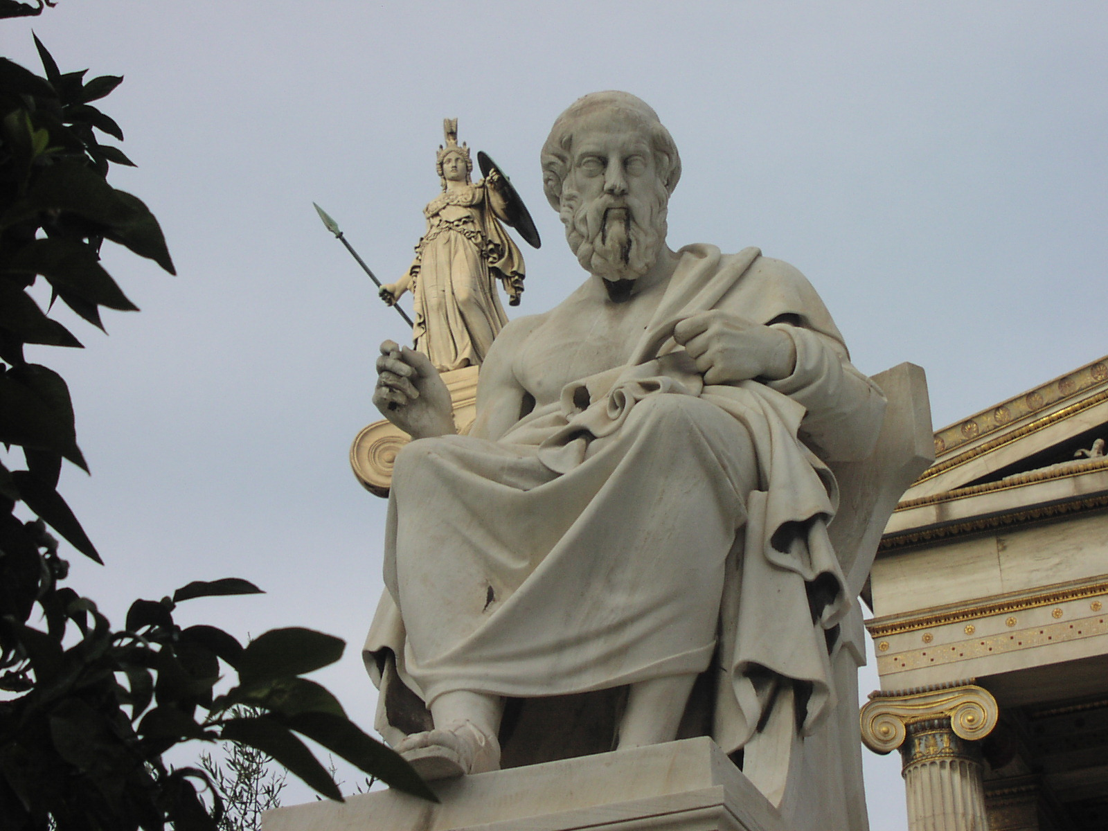 Athena_looking_over_Plato